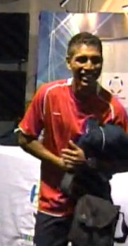 Peruvian soccer player